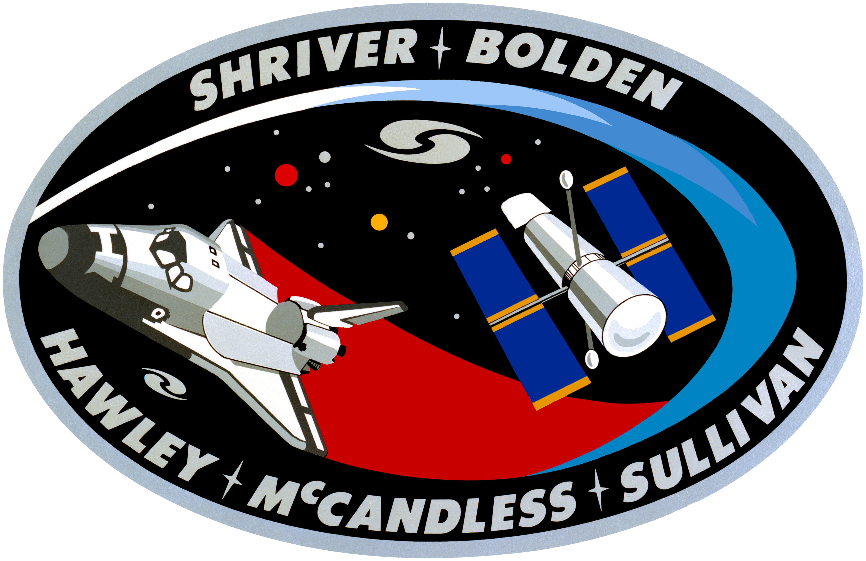 STS-31 shuttle mission flight insignia. The mission insignia for NASA's STS-31 mission features the Hubble Space Telescope (HST) in its observing configuration against a background of the universe it will study. The cosmos includes a stylistic depiction of galaxies in recognition of the contribution made by Sir Edwin Hubble to our understanding of the nature of galaxies and the expansion of the universe. The STS-31 crew points out that is it in honor of Hubble's work that this great observatory in space bears his name. The depicted Space Shuttle trails a spectrum symbolic of both the red shift observations that were so important to Hubble's work and new information which will be obtained with the HST. Encircling the art work, designed by the crew, are the names of its members.